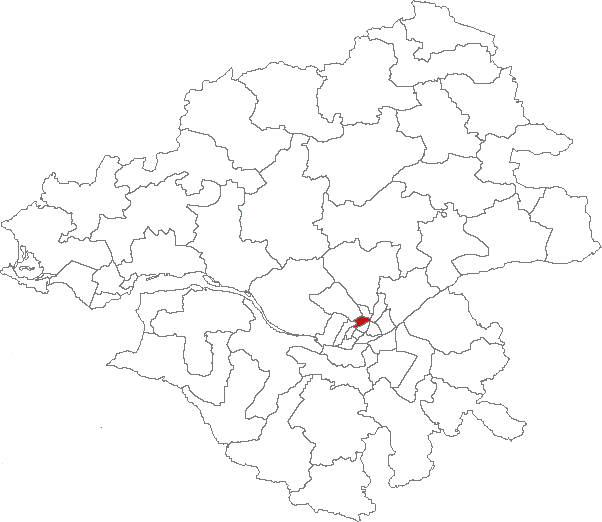 Map of canton of France : Canton de Nantes-6, Loire-Atlantique, France